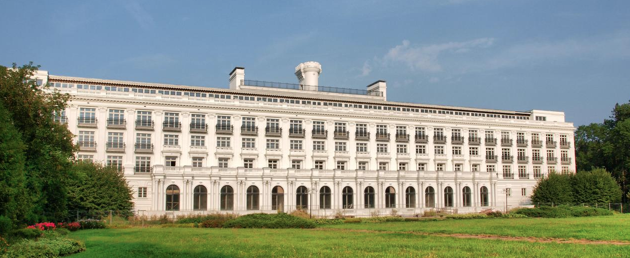 Kemeri Sanotorium Building, Jurmala, Latvia